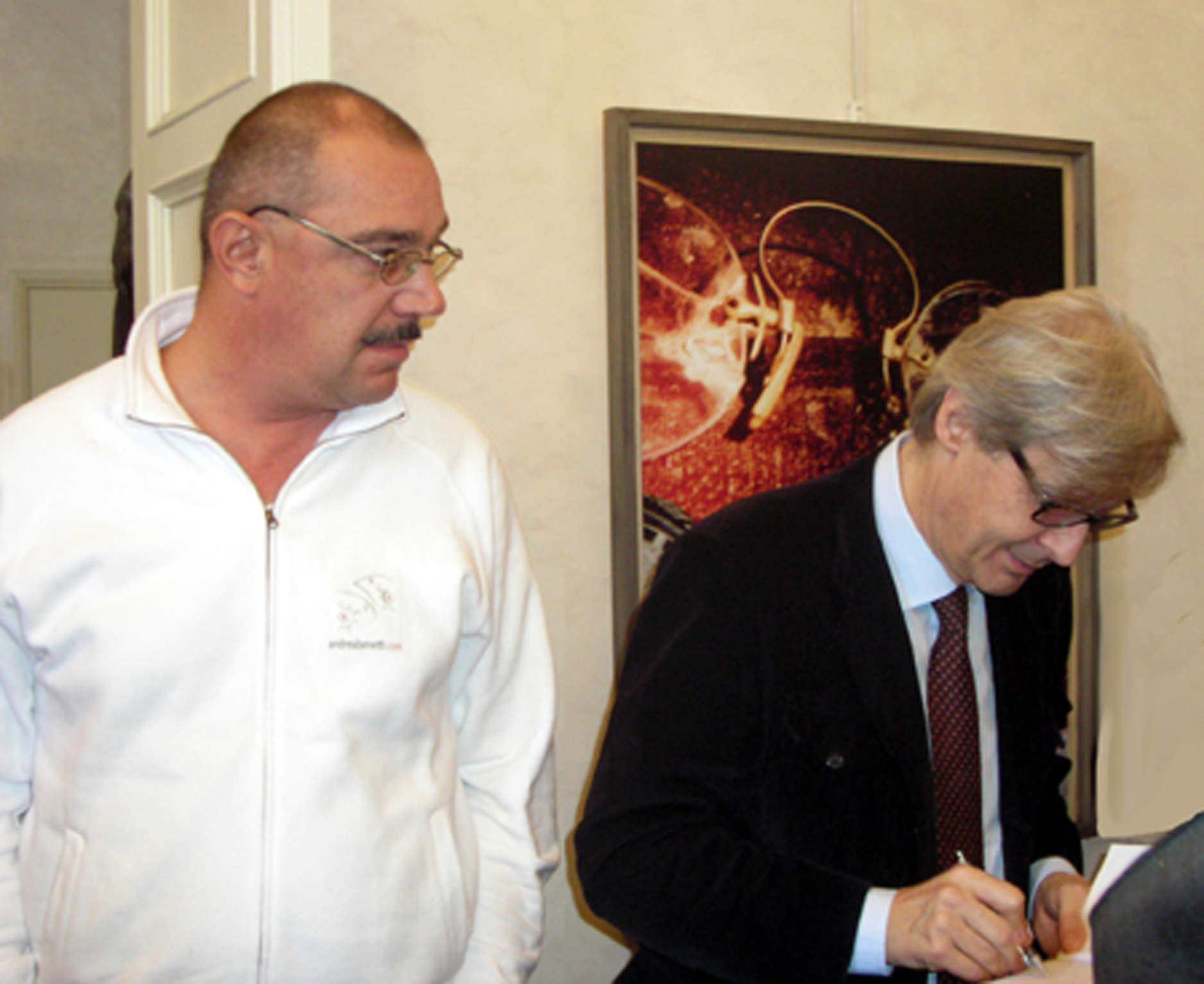 Andrea Benetti e Vittorio Sgarbi all'inaugurazione della mostra "Portraits d'artistes"